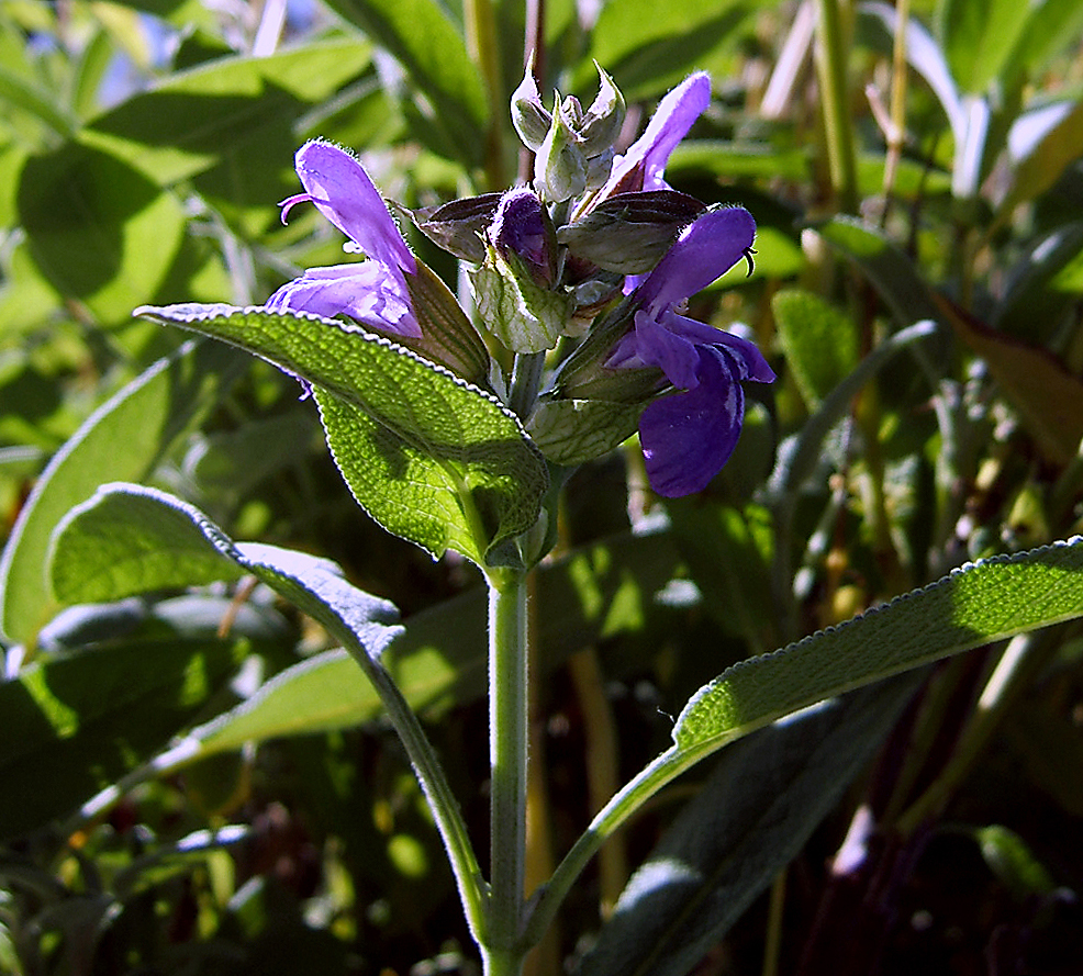 Common sage